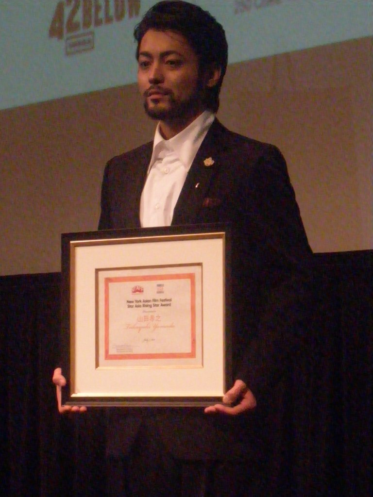 NYAFF 2011 Star Asia Awards - TAKAYUKI YAMADA - 18